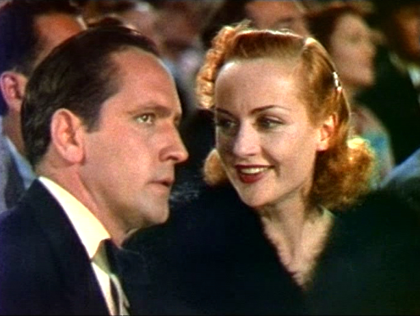 Screenshot of Fredric March and Carole Lombard from the film Nothing Sacred.